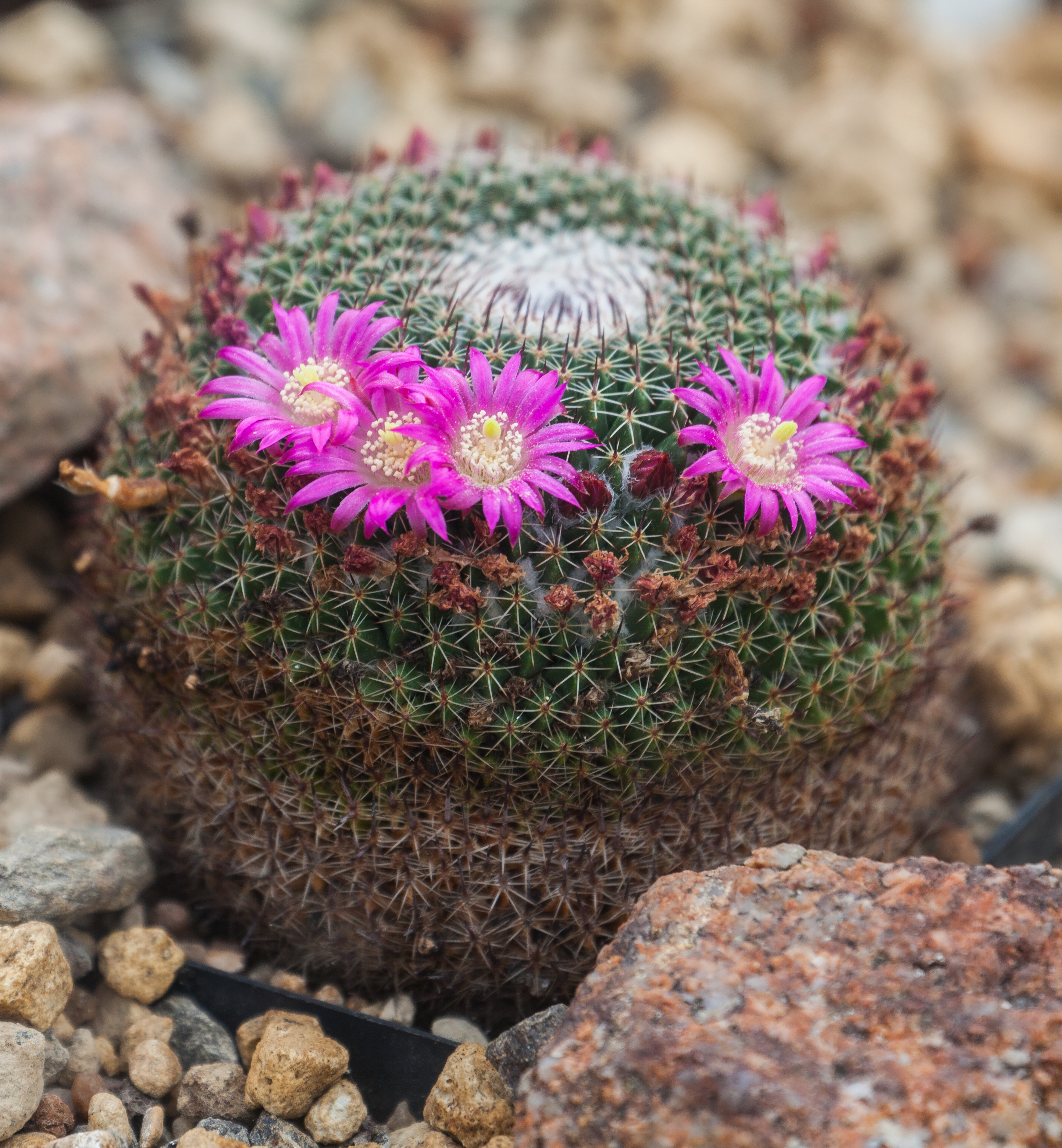 Mammillaria mystax, Munich Botanical Garden, Germany